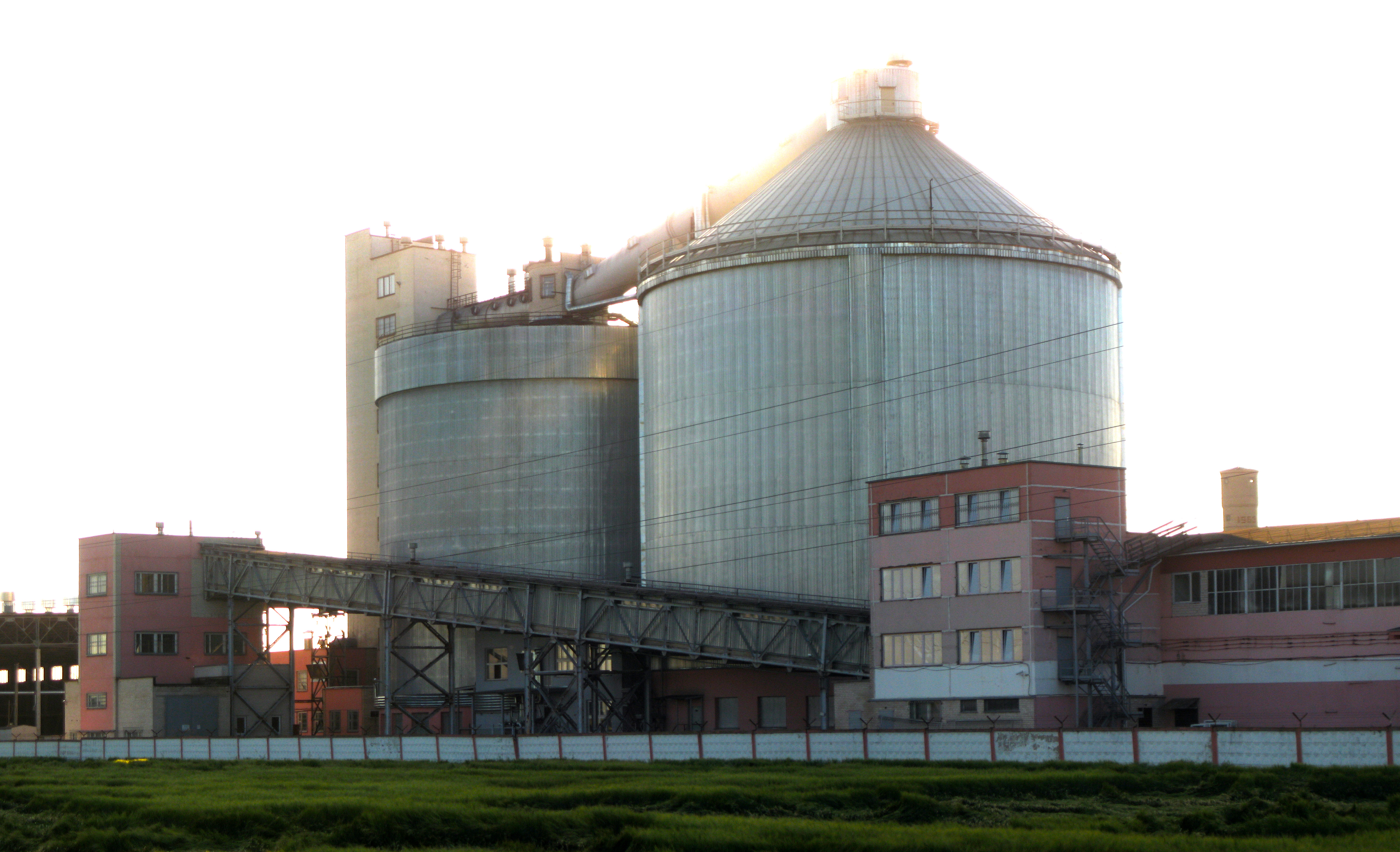 Silos of Slutsk Sugar refinery. Беларуская (тарашкевіца): Сіласы Слуцкага цукроварафінаднага камбіната